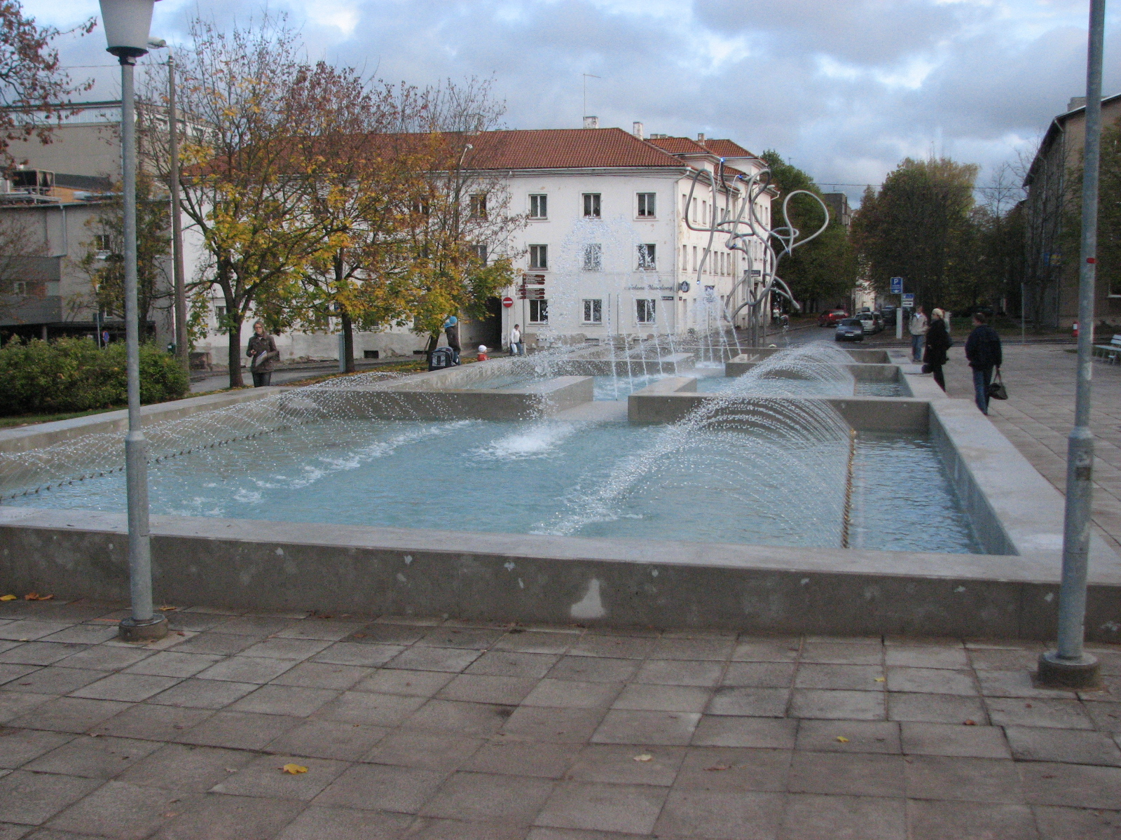 Fountain in front of the Tartu University Library, Tartu, Estonia